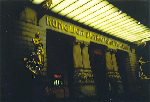 Dramaten - The Royal Dramatic Theatre, Sweden's national stage, by night.